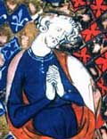 Henry I of England